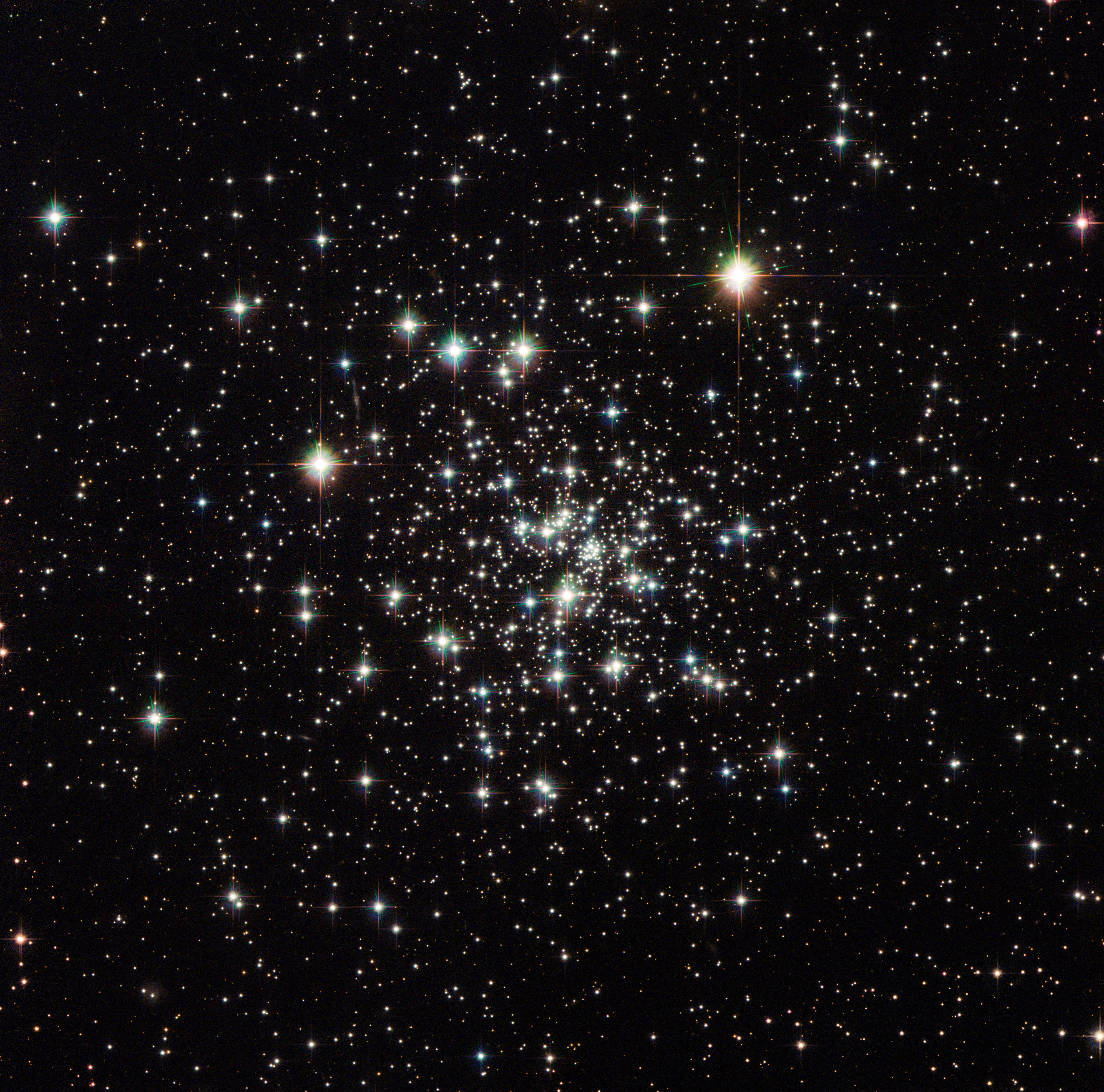 This image captures the stunning NGC 6535, a globular cluster 22 000 light-years away in the constellation of Serpens (The Serpent) that measures one light-year across. Globular clusters are tightly bound groups of stars which orbit galaxies. The large mass in the rich stellar centre of the globular cluster pulls the stars inward to form a ball of stars. The word globulus, from which these clusters take their name, is Latin for small sphere. Globular clusters are generally very ancient objects formed around the same time as their host galaxy. To date, no new star formations have been observed within a globular cluster, which explains the abundance of aging yellow stars in this image, most of them containing very few heavy elements. NGC 6535 was first discovered in 1852 by English astronomer John Russell Hind. The cluster would have appeared to Hind as a small, faint smudge through his telescope. Now, over 160 years later, instruments like the Advanced Camera for Surveys (ACS) and Wide Field Camera 3 (WFC3) on the NASA/ESA Hubble Space Telescope allow us to capture the cluster close up and marvel at its contents in detail. A version of this image was entered into the Hubble's Hidden Treasures image processing competition by contestant Gilles Chapdelaine. Link: Gilles Chapdelaine's image on Flickr